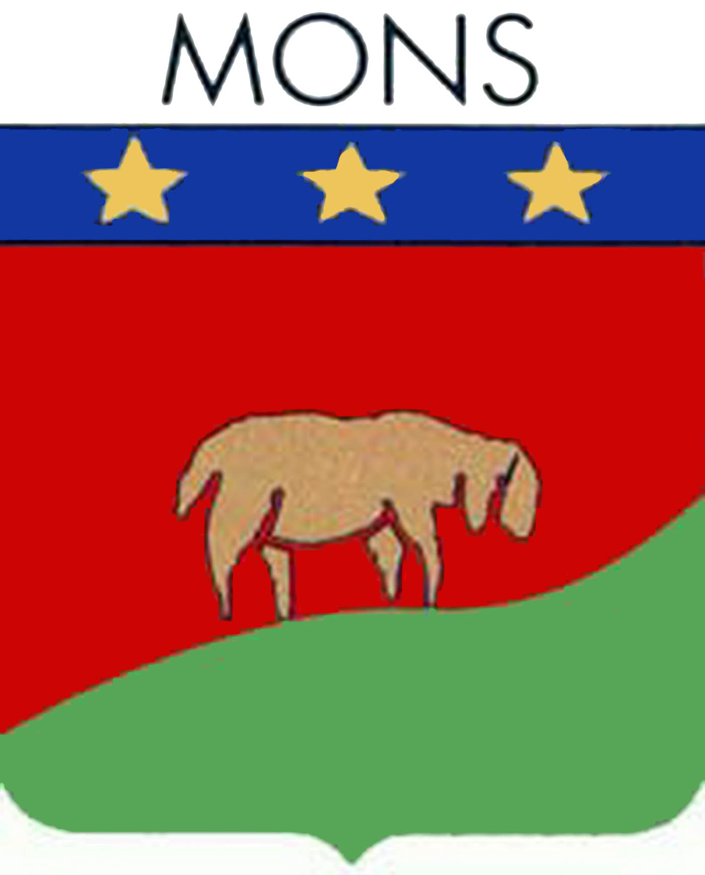 Mons(Var, coats fo arms